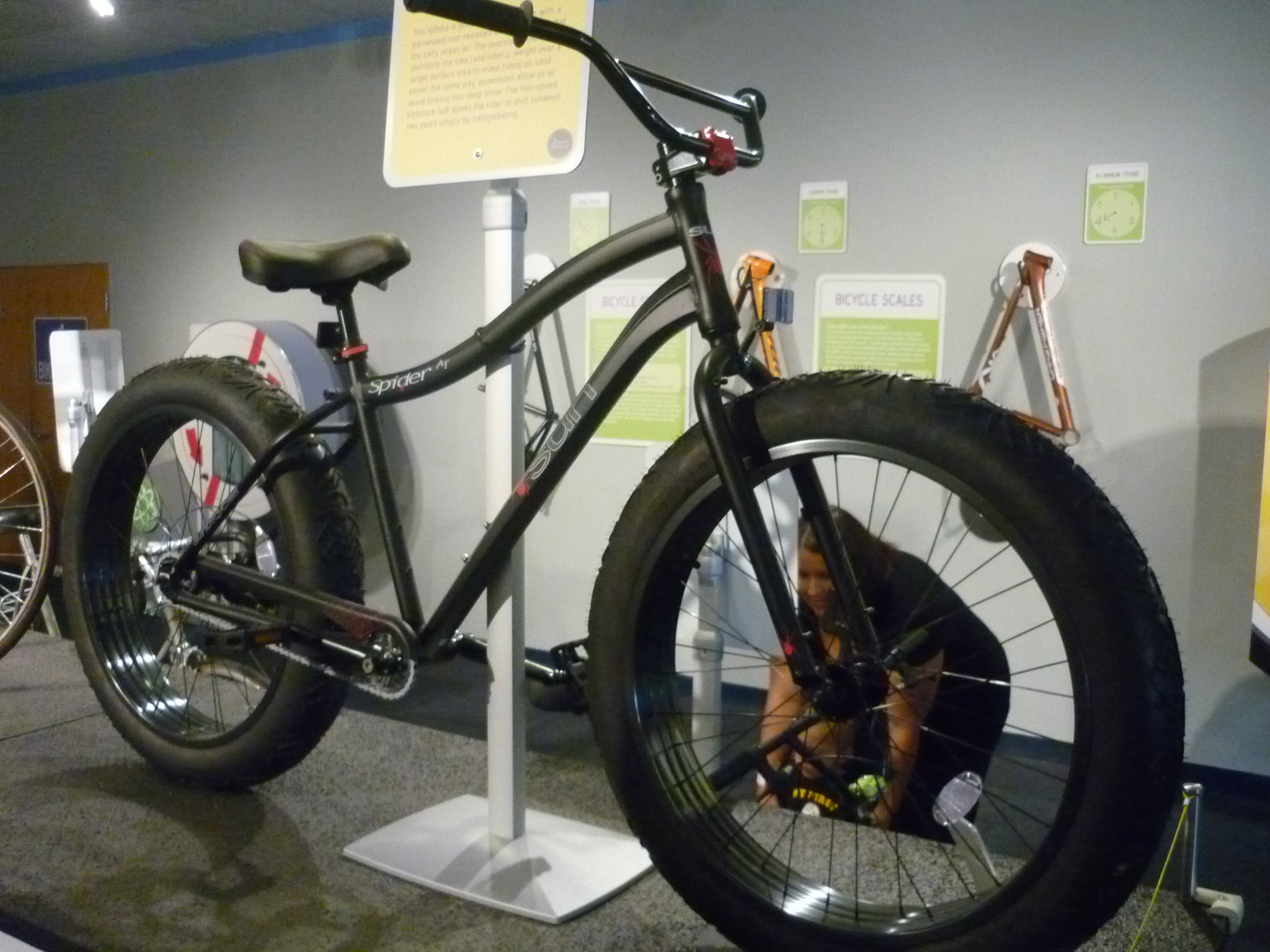 The Sun Spider AT beach bicycle on display at the Carnegie Science Center in Pittsburgh, PA. It features 26 x 4 inch tires, aluminum frame, and a 2-speed hub.